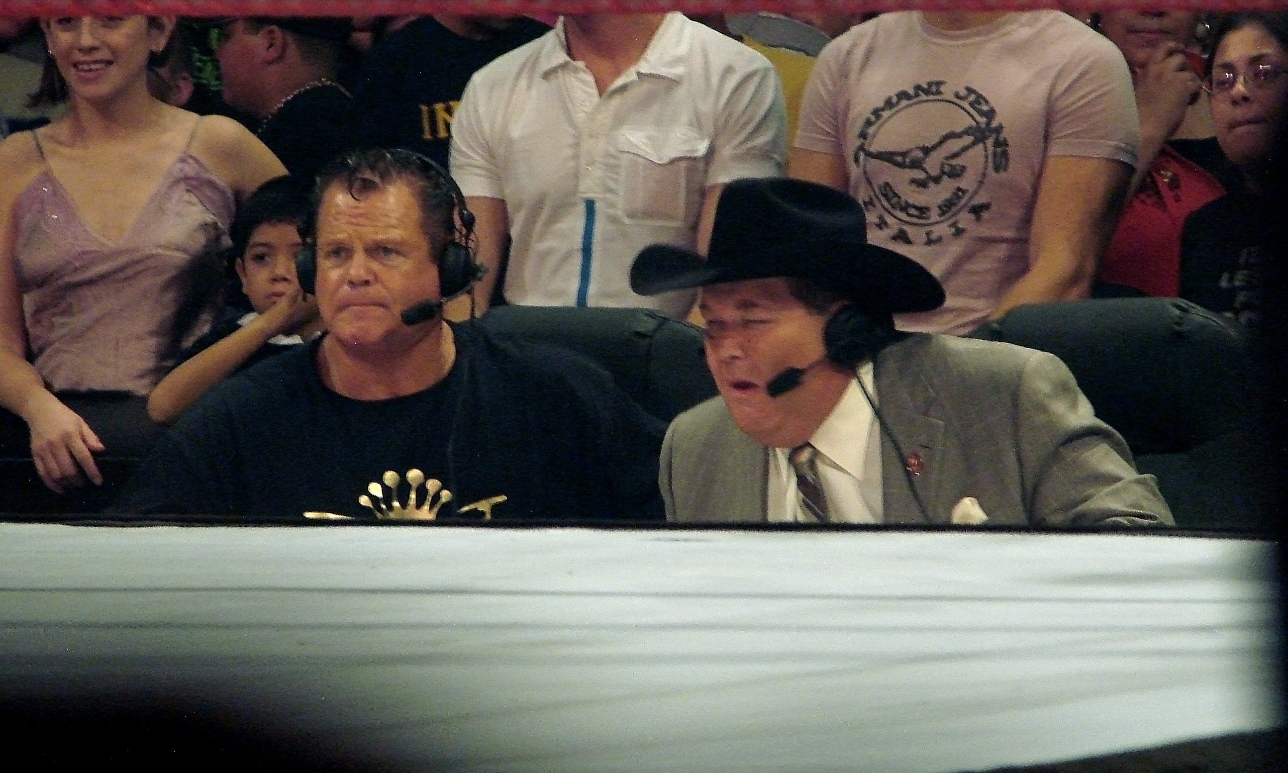 Jim Ross and Jerry Lawler at No Mercy (2007). Allstate Arena, Rosemont, Illinois, October 7, 2007.